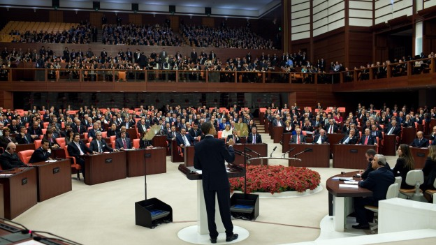 President Barack Obama addresses his remarks to the Turkish Parliament Monday, April 6, 2009, in Ankara, Turkey.